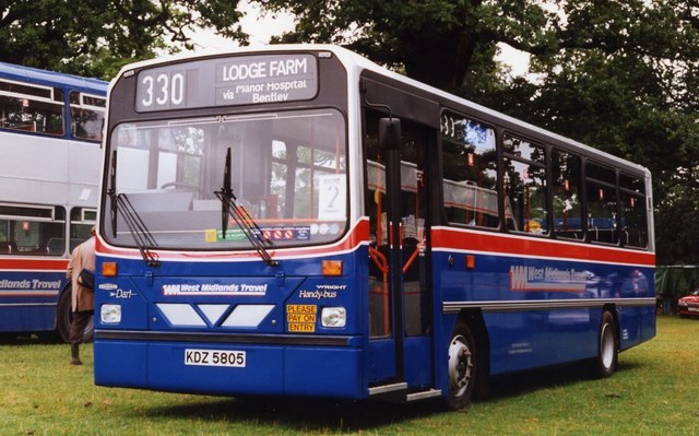 Wythall Transport Museum - Dennis Dart 1995 Wythall Transport Museum in 1995. Photograph is of a Dennis Dart bus which was brand new at the time the photograph taken in 1995. The vehicle was then owned by West Midlands Travel. At the time of submission, the vehicle is owned by Midland Rider. Vehicle registration number: KDZ 5805.